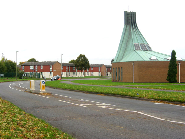 Gleneagles Avenue, Rushey Mead, Leicester. Catholic Church of Our Lady by Soar Valley College with a dramatic copper roof.